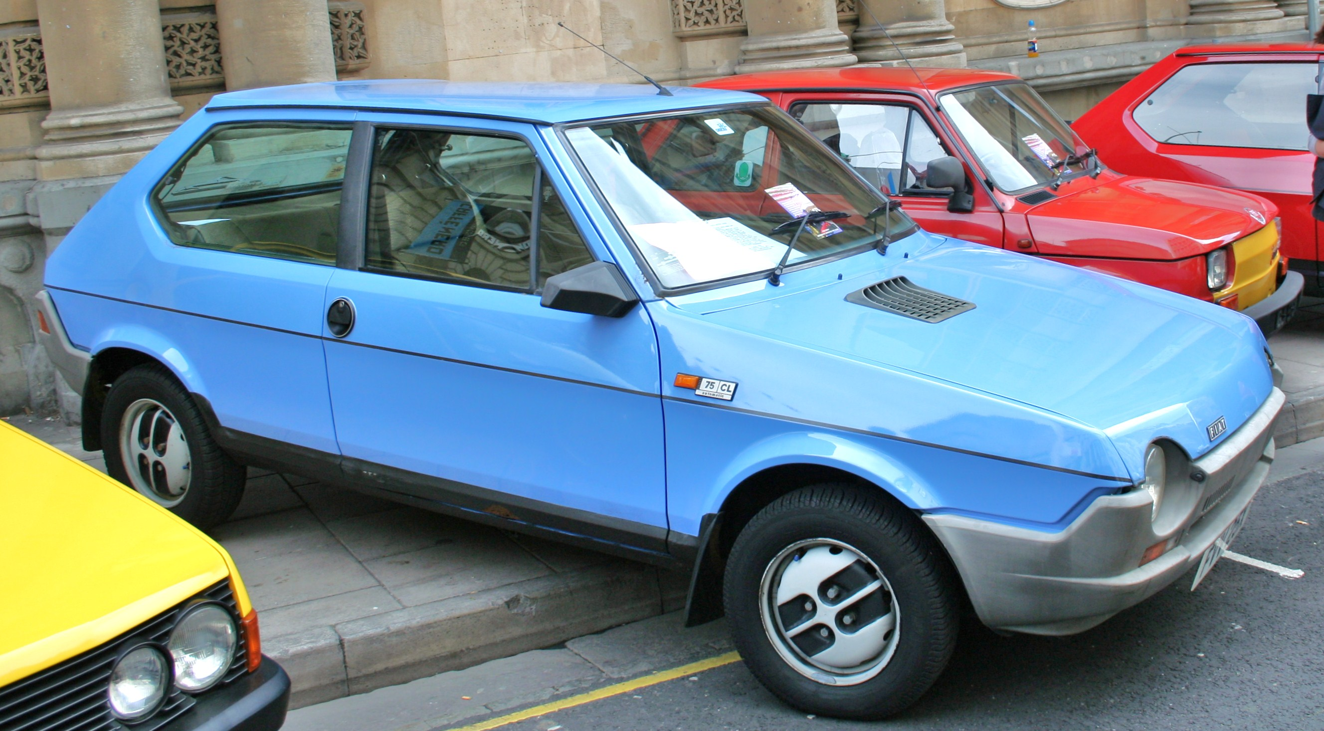 Fiat Ritmo